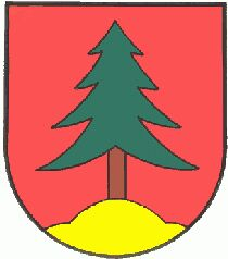 Coat of arms of the former municipality Neumarkt in Steiermark, Styria, Austria